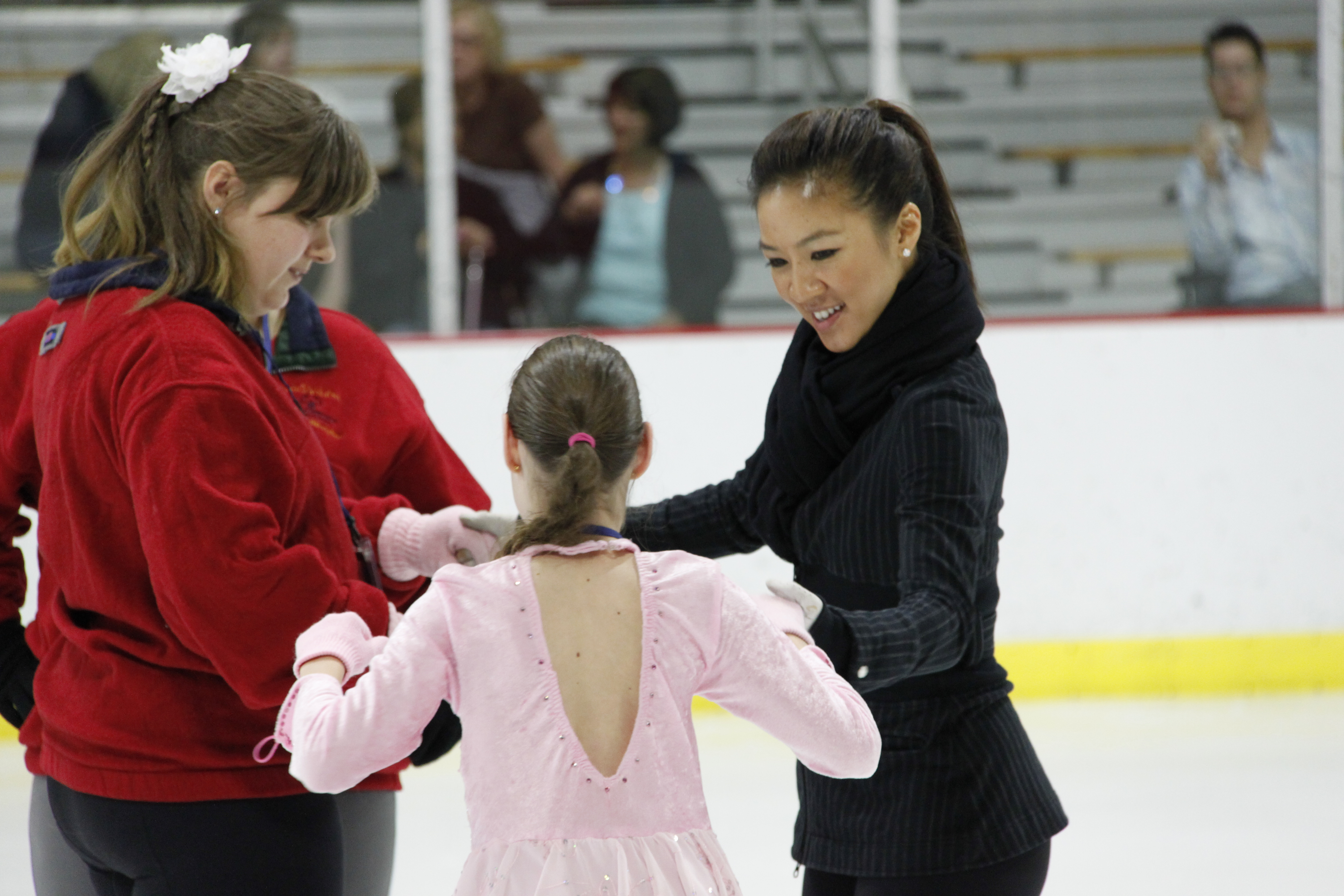 American figure skater Michelle Kwan at the Special Olympics Massachusetts, Veterans Memorial Arena, Everett, Massachusetts, September 25, 2010